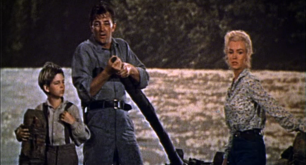 Tommy Rettig, Robert Mitchum and Marilyn Monroe in River of No Return (1954)